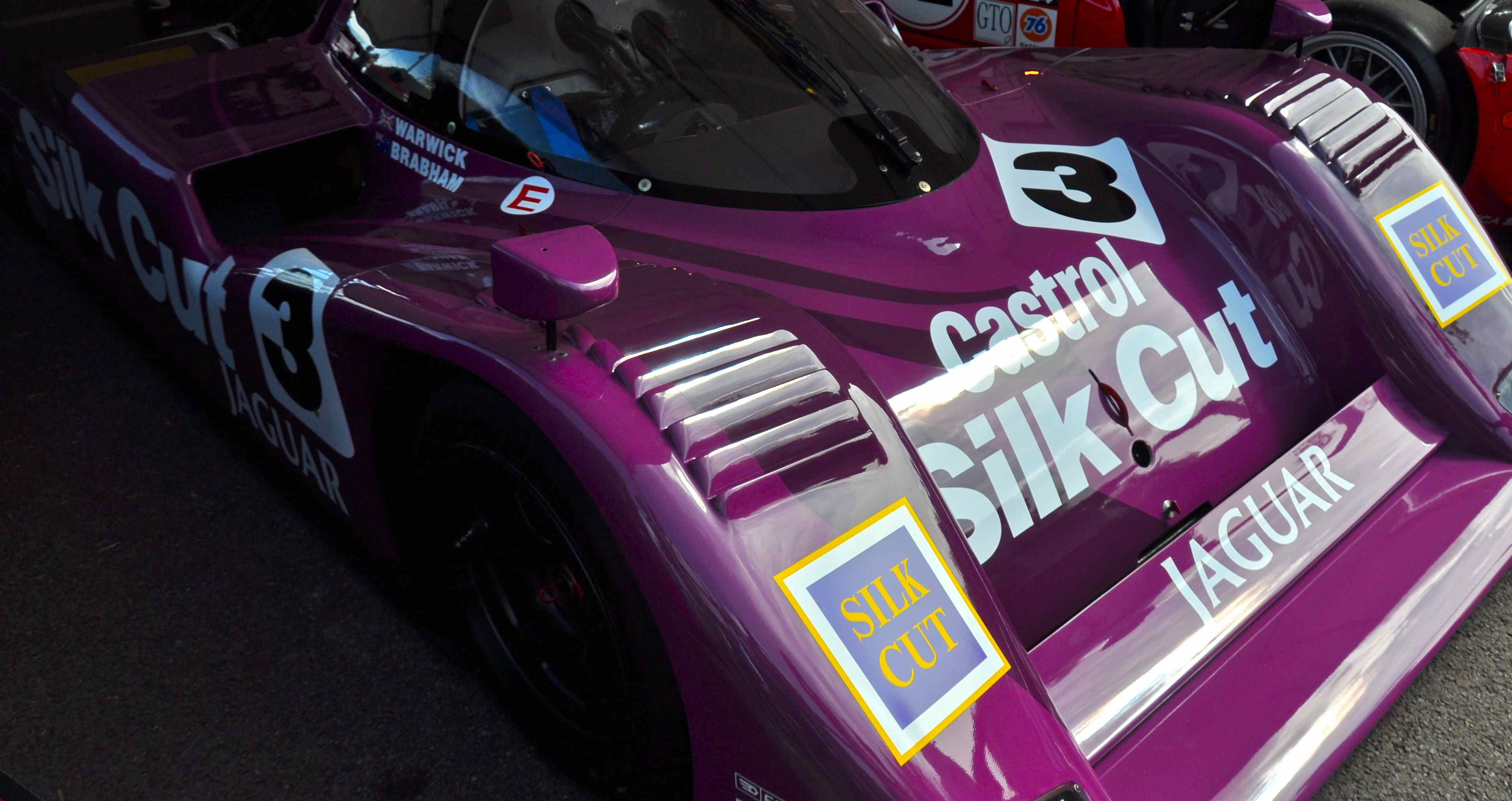 XJR-14 at Goodwood, 2010